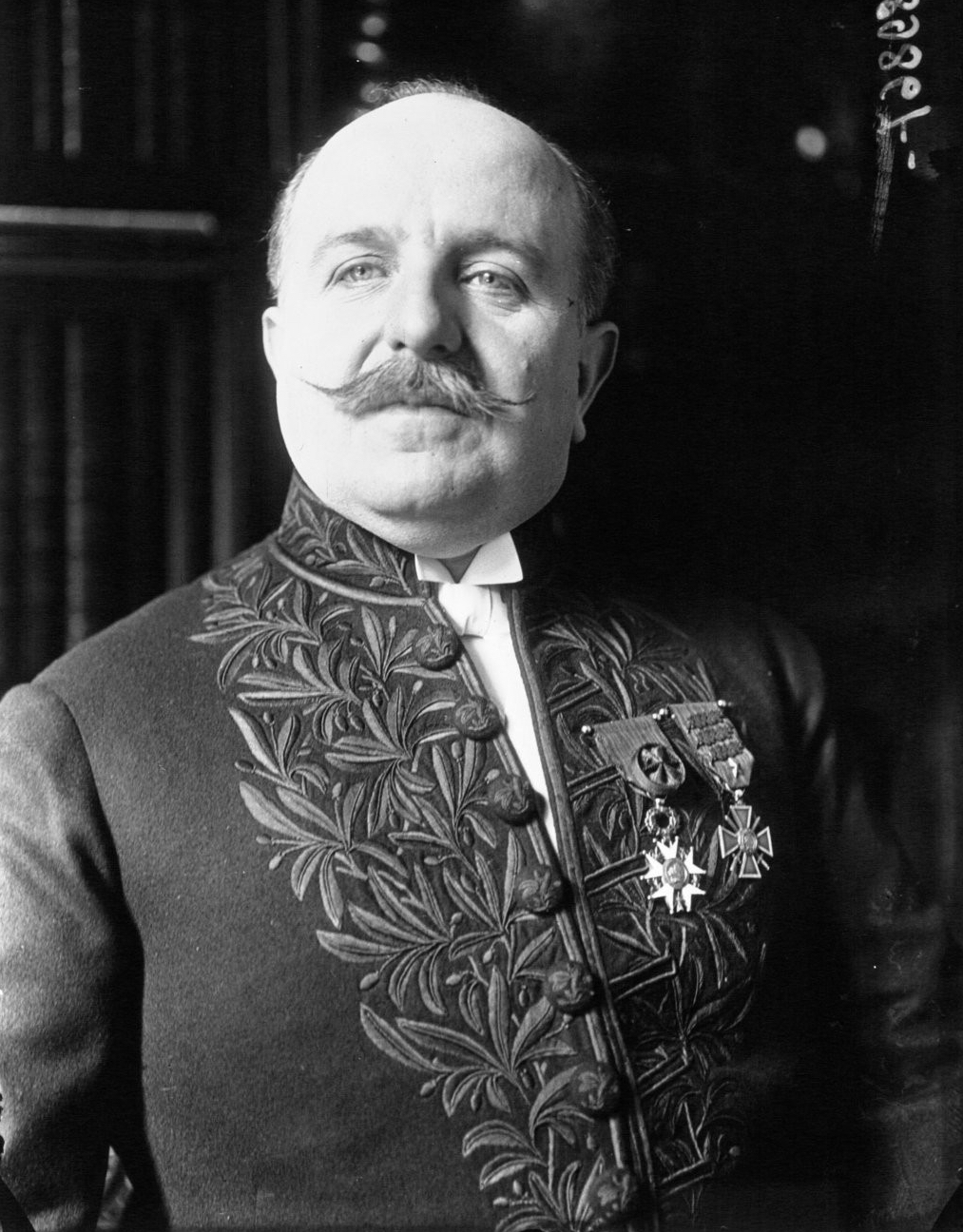 French playwright Robert de Flers (1872-1927).